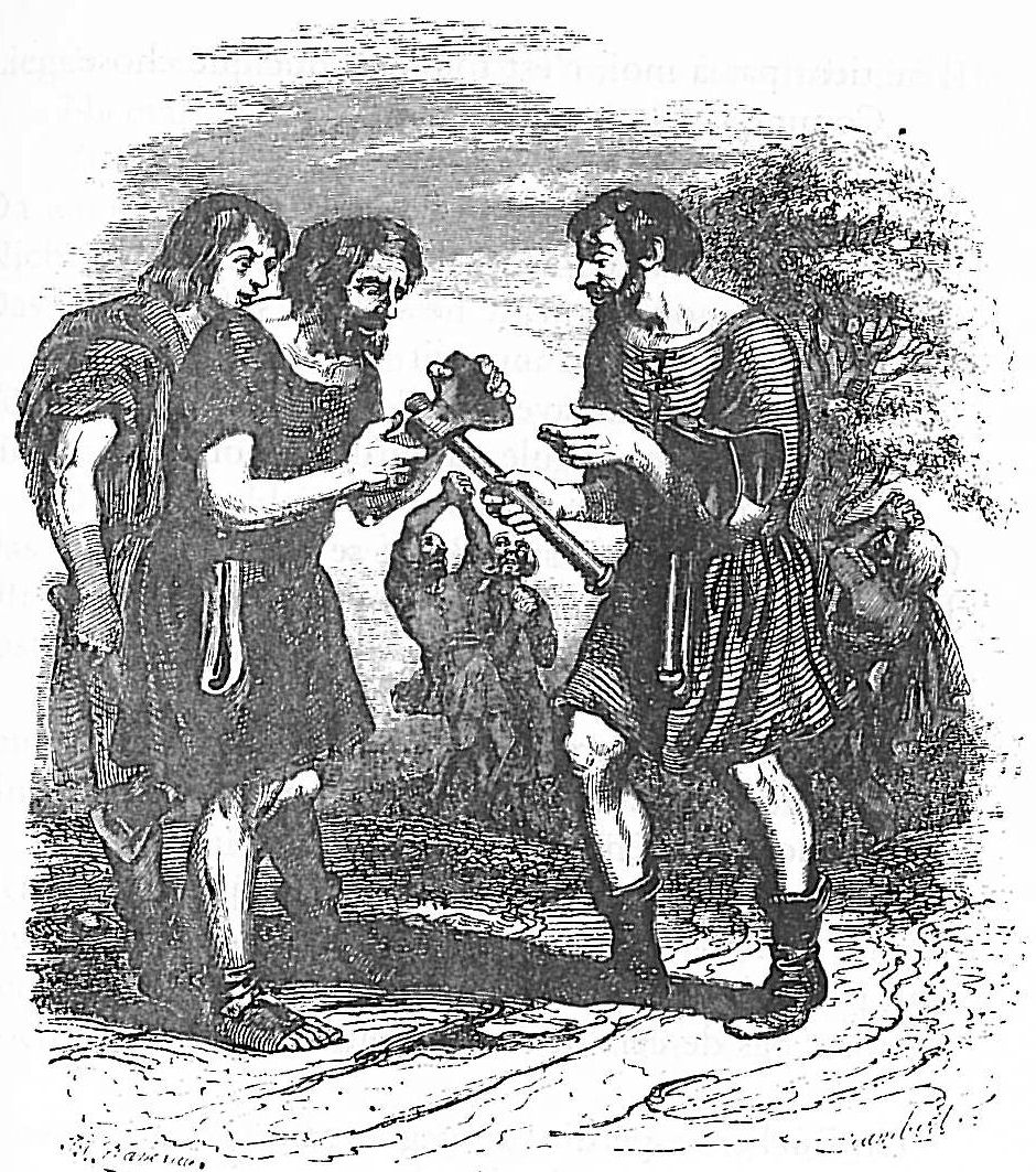 illustration of Jean de La Fontaine's fables by Grandville